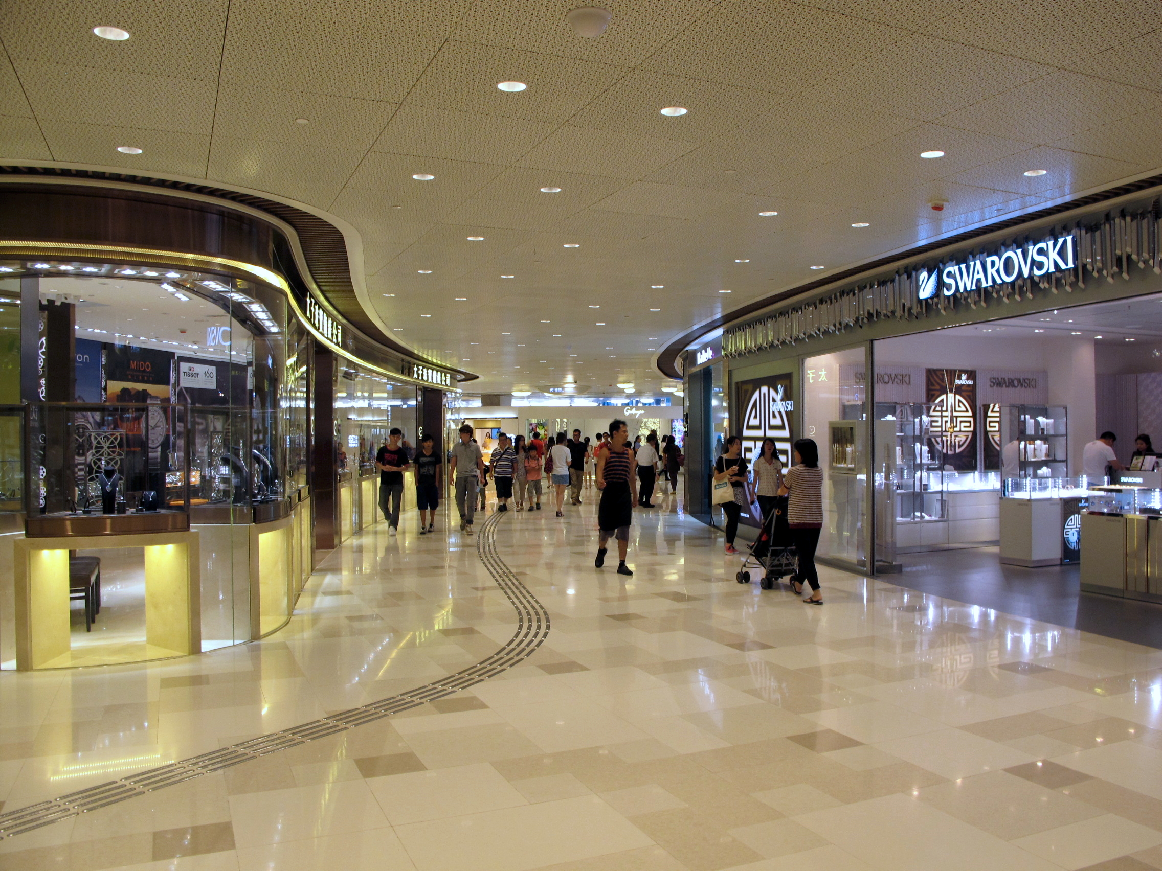 V City MTR level Shops